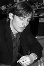 Chess player Alexander Grischuk.